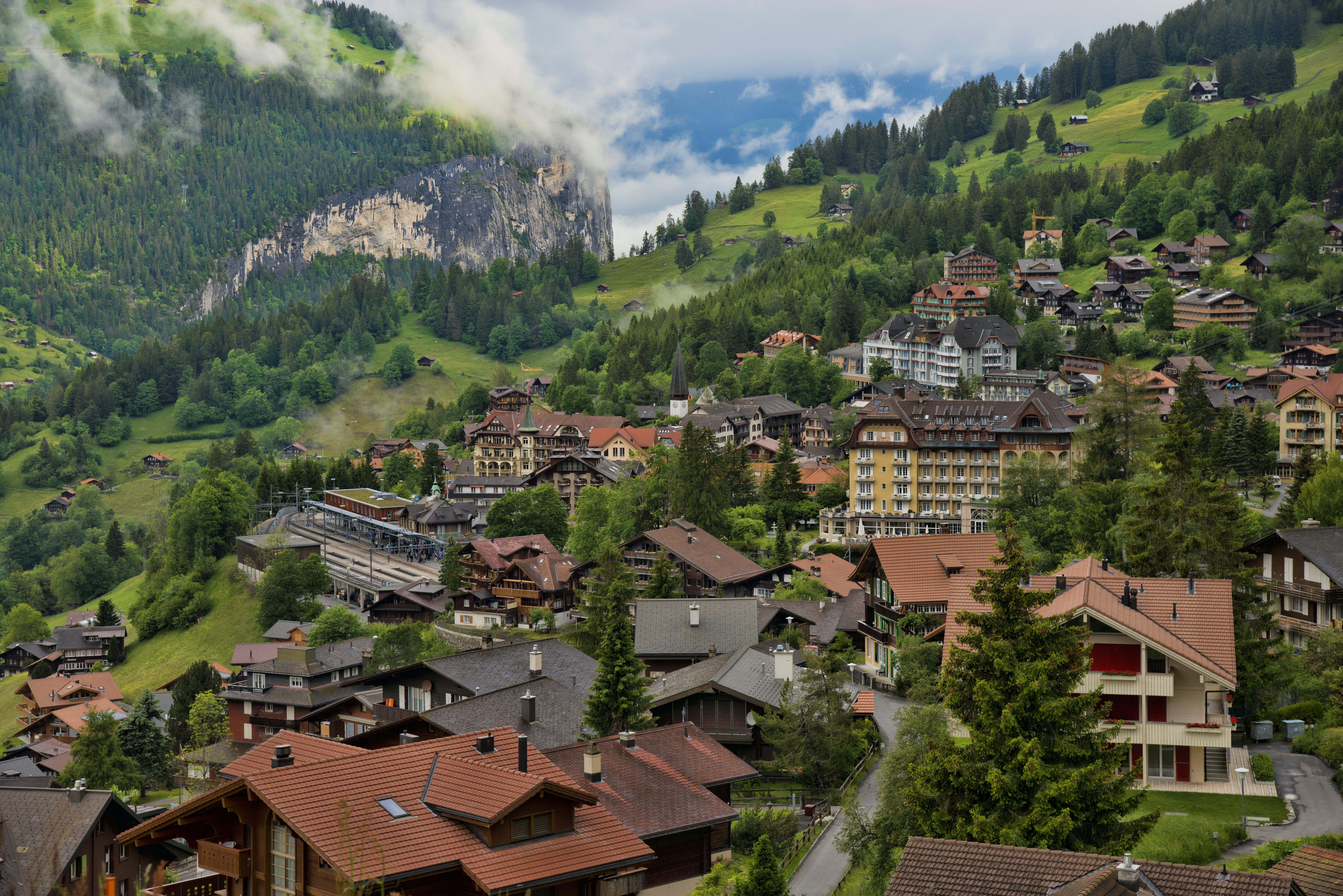 Wengen, Switzerland, from the train, 2012